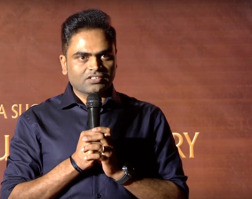 Indian filmmaker Vamsi Paidipally addressing the gathering at the success meet of the 2018 Indian bilingual film Mahanati (Telugu)/Nadigaiyar Thilagam (Tamil).